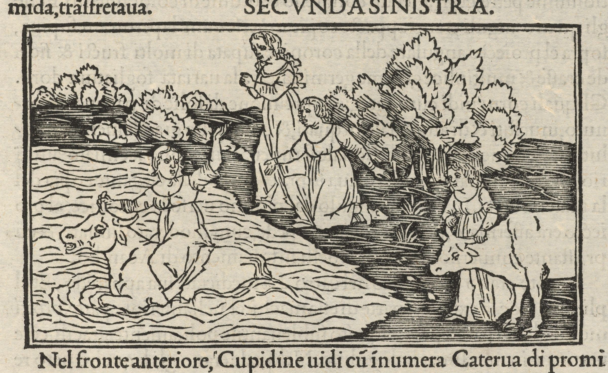 Illustration from Hypnerotomachia Poliphili, Venice: 1499, by Francesco Colonna. WKR 3.5.4, Houghton Library, Harvard University